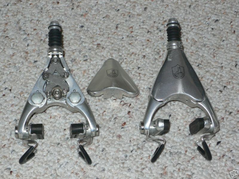 I made this photo.